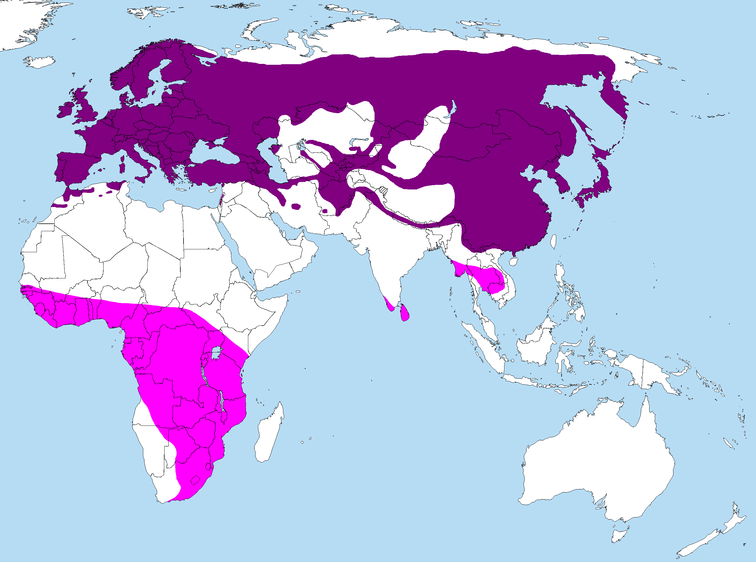 A map showing the distribution of Coocoo (Cuculus canorus). Deep purple = summer, light purple = winter. Reference: Cramp, Stanley and Simmons, K. E. L. (editors): Handbook or the Birds of Europe, the Middle East and North Africa: the Birds of the Western Palearctic. Vol. 4: Terns to Woodpeckers. Oxford University Press, 1985